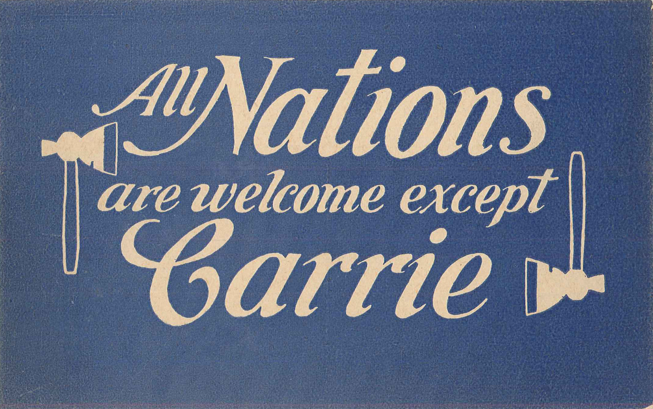 A postcard saying "All Nations are welcome except Carrie", a reference to temperance activist Carrie Nation